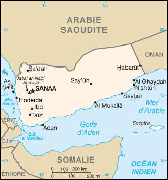 Map in French of Yemen